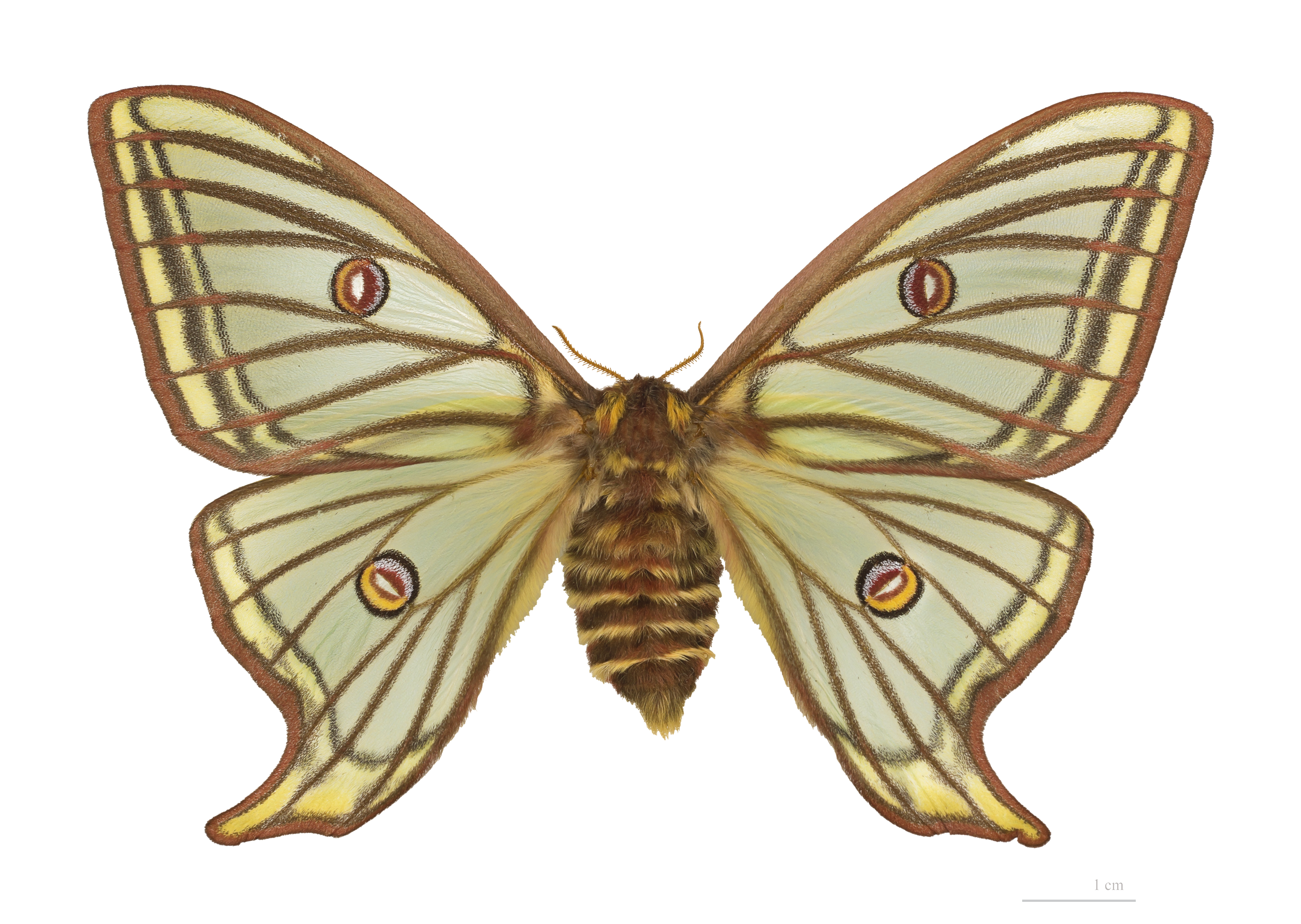 Spanish Moon Moth ♀ - Dorsal side Locality: Roncal, Navarra, Spain